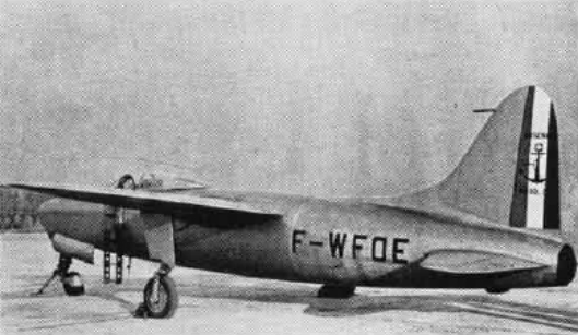 The first French Arsenal VG 90.01 carrier-based fighter (F-WFOE). This aircraft was first flown on 27 September 1949 and crashed on 25 May 1950, when an undercarriage door tore off in flight and struck the aircraft's tail. Pilot Pierre Decroo was killed in the crash.